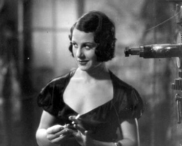 Romanian born actress and singer Paola Iliescu, professionally known as Pola Illéry